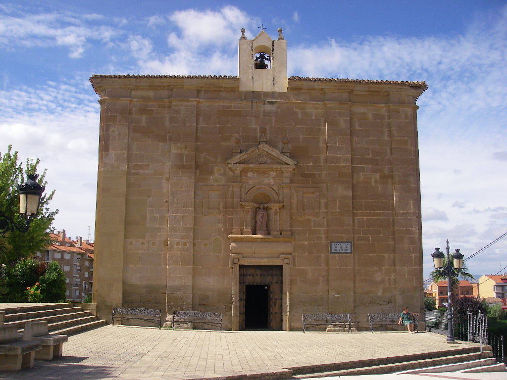 View of the San Marcial's basilica in Lardero (La Rioja, Spain)